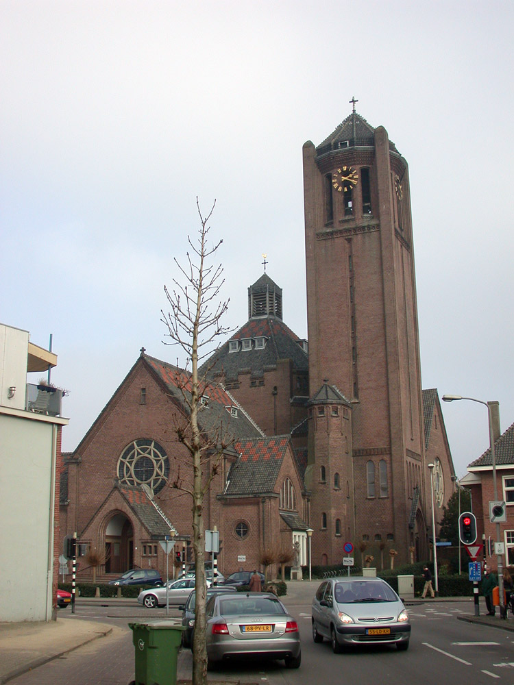 Church Onze Lieve Vrouw van Goede Raad or Broekhovense kerk in Tilburg, built in 1913, designed by Jan van der Valk.